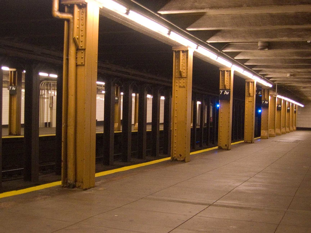 Seventh Avenue station on the BMT Brighton Line of the New York City Subway.